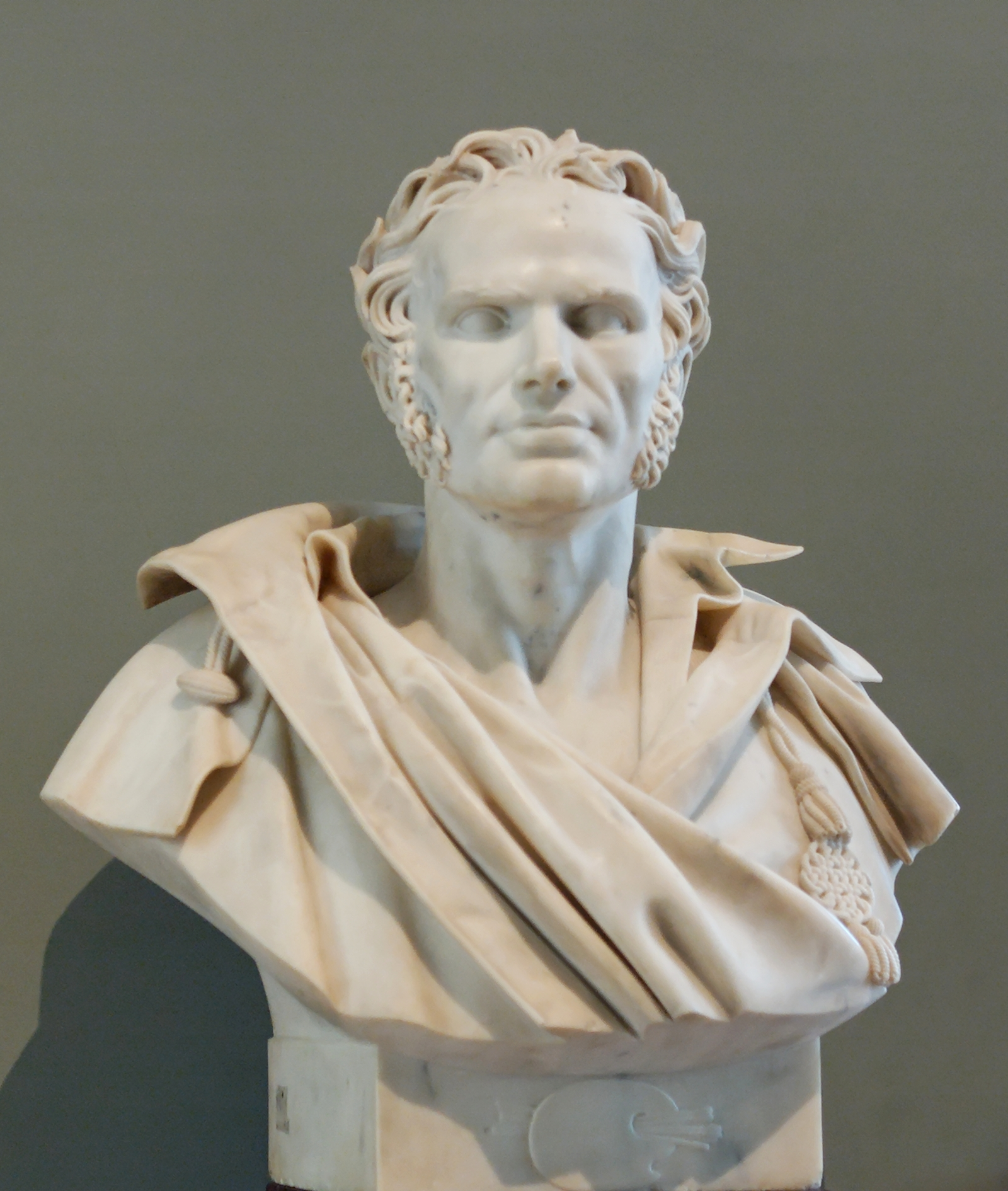 Portrait of French painter Anne-Louis Girodet de Roussy-Trioson (1767–1824). Marble, commissionned for the paintings galleries of the Louvre.